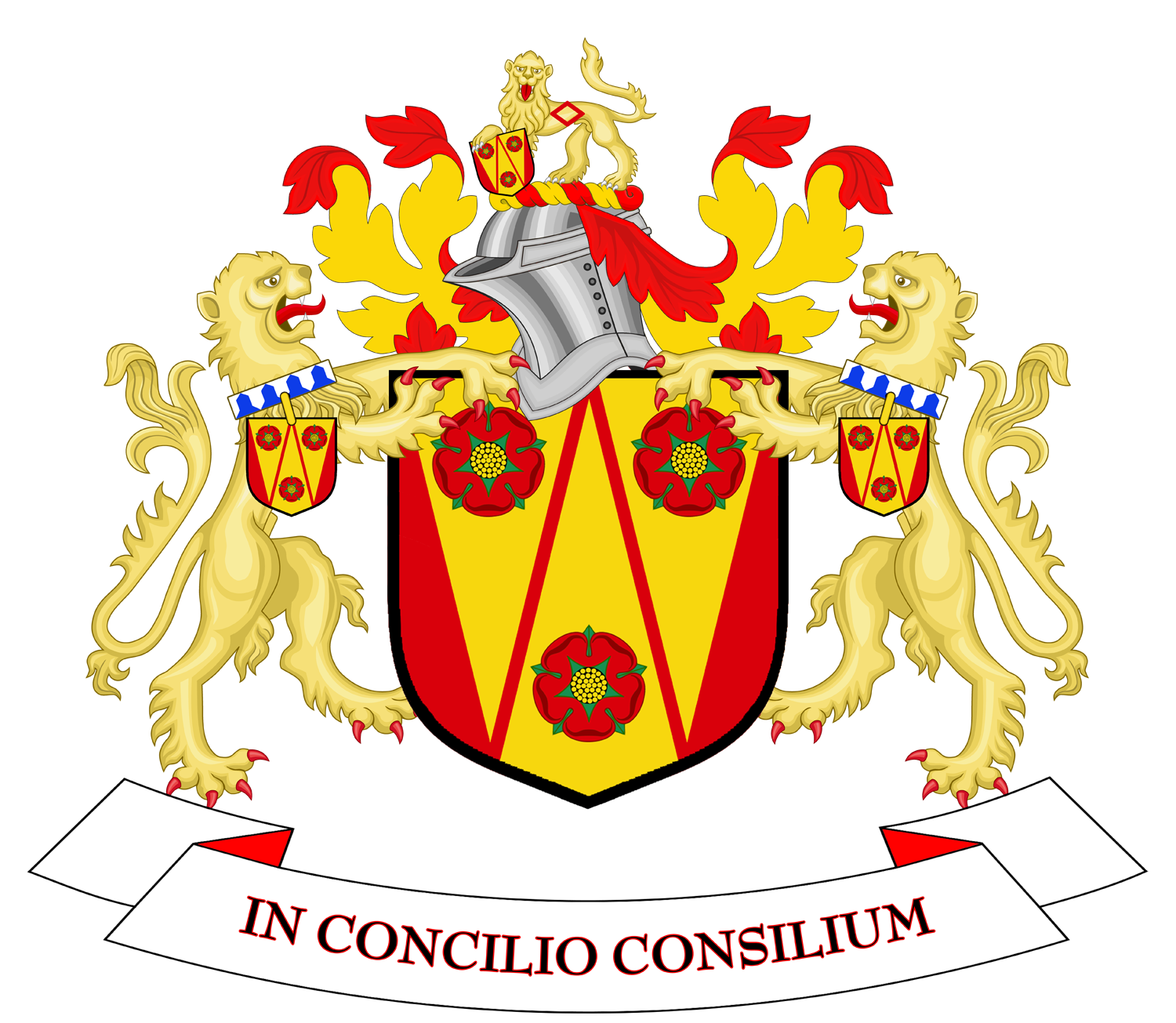 The Coat of arms of Lancashire County Council, the top-tier authority for the county of Lancashire, in North West England. The blazon is:ARMS: Gules three Piles two issuant from the chief and one in base Or each charged with a Rose of the field barbed and seeded proper. CREST: On a Wreath of the Colours a Lion passant guardant proper charged on the body with a Mascle Gules and resting the dexter forepaw on an Escocheon of the above said Arms. SUPPORTERS: On either side a Lion proper gorged with a Collar Vair pendent therefrom an Escocheon of the following Arms viz. Gules three Piles two issuant from the chief and one in base Or each charged with a Rose Gules barbed and seeded proper.